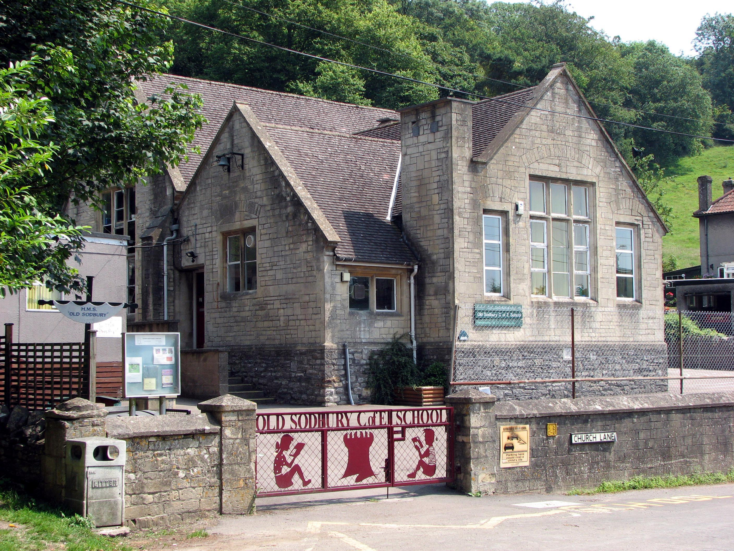 The Church of England School at Old Sodbury, South Gloucestershire, near Bristol, England. Photographed by Adrian Pingstone in July 2006 and placed in the public domain.